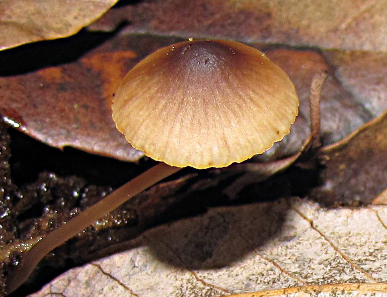 A fruit body of the fungus Mycena aurantiomarginata (Fr.) Quél.Specimen photographed in Henry Cowell Redwoods State Park, Santa Cruz, California, USA. The original photo was cropped and had exposure level tweaked by uploader.